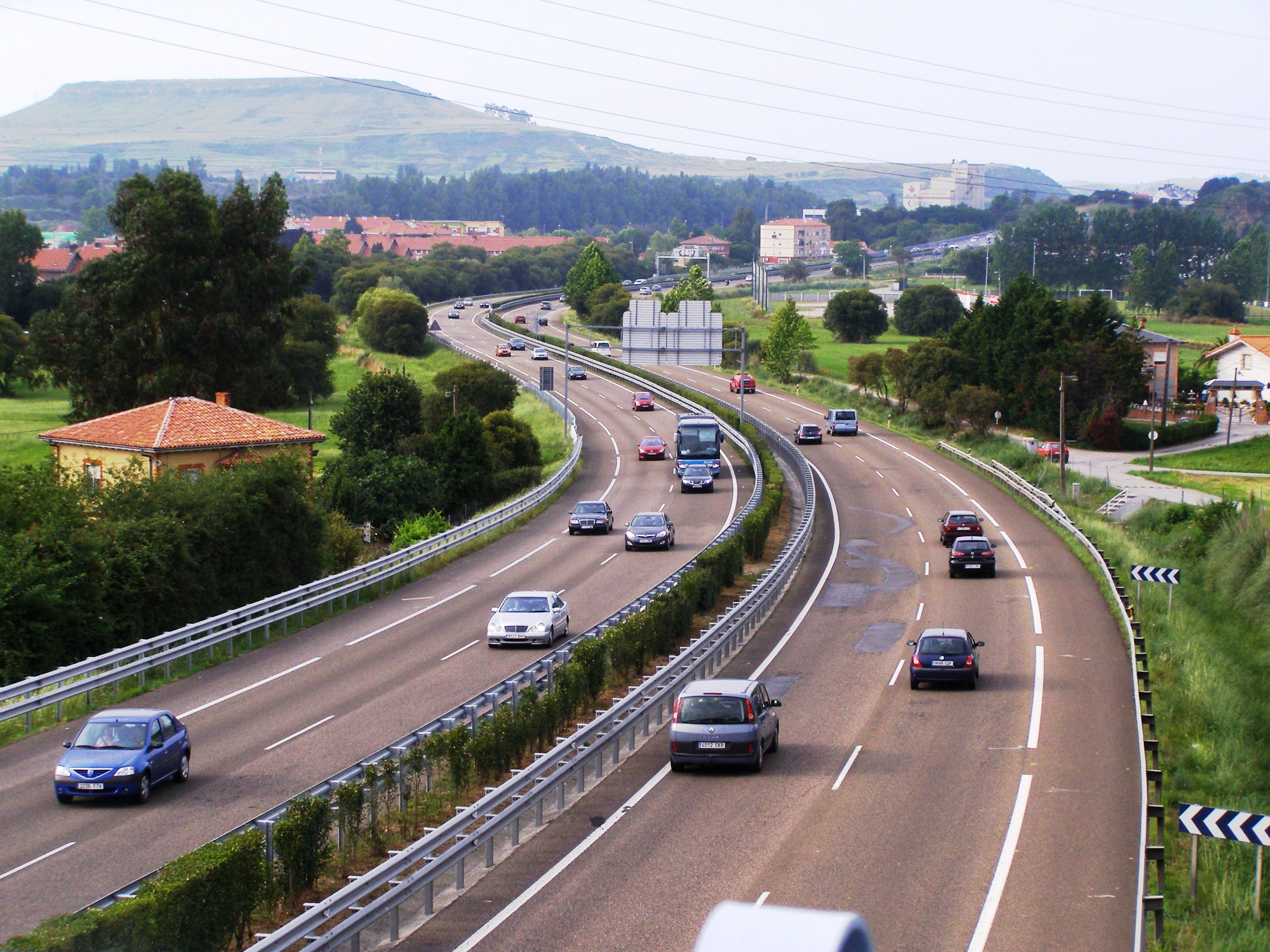 A-67 motorway in Barreda (Torrelavega)